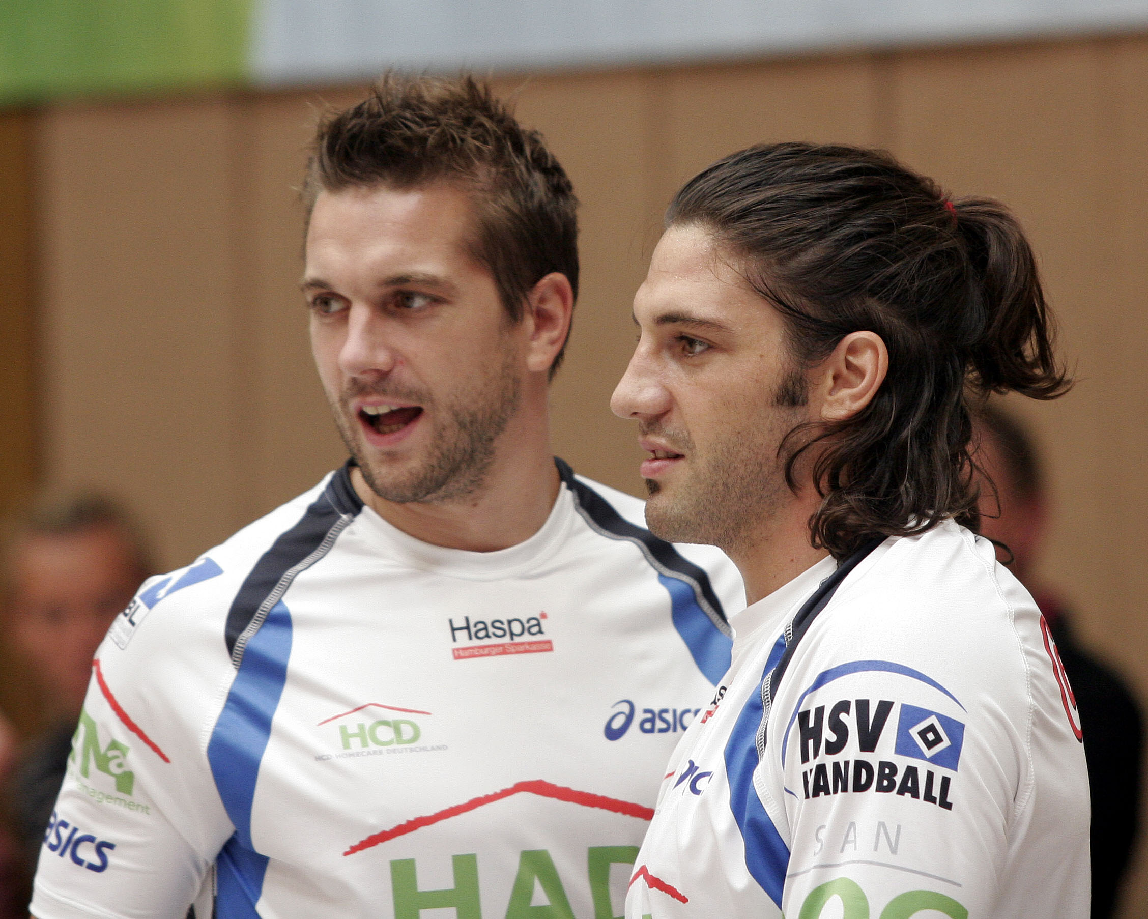 Guillaume and Bertrand Gille (left to right), the French handball players from HSV Hamburg, during the Schlecker Cup 2007 in Ehingen (Germany)